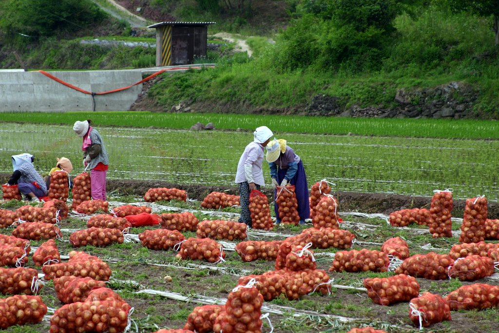 A scenery of Andong City Gyeongsangbuk-do, South Korea on May 26, 2007.